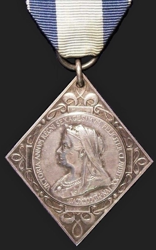 Victoria Diamond Jubilee Medal, Mayor 1897. Issue for mayors and provosts, in silver (Obverse)